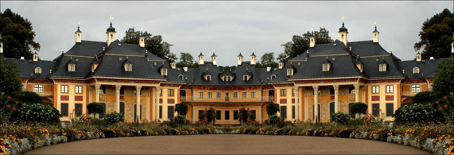 The Hillside Palace of Pillnitz Castle in the Saxon capital Dresden, Germany.